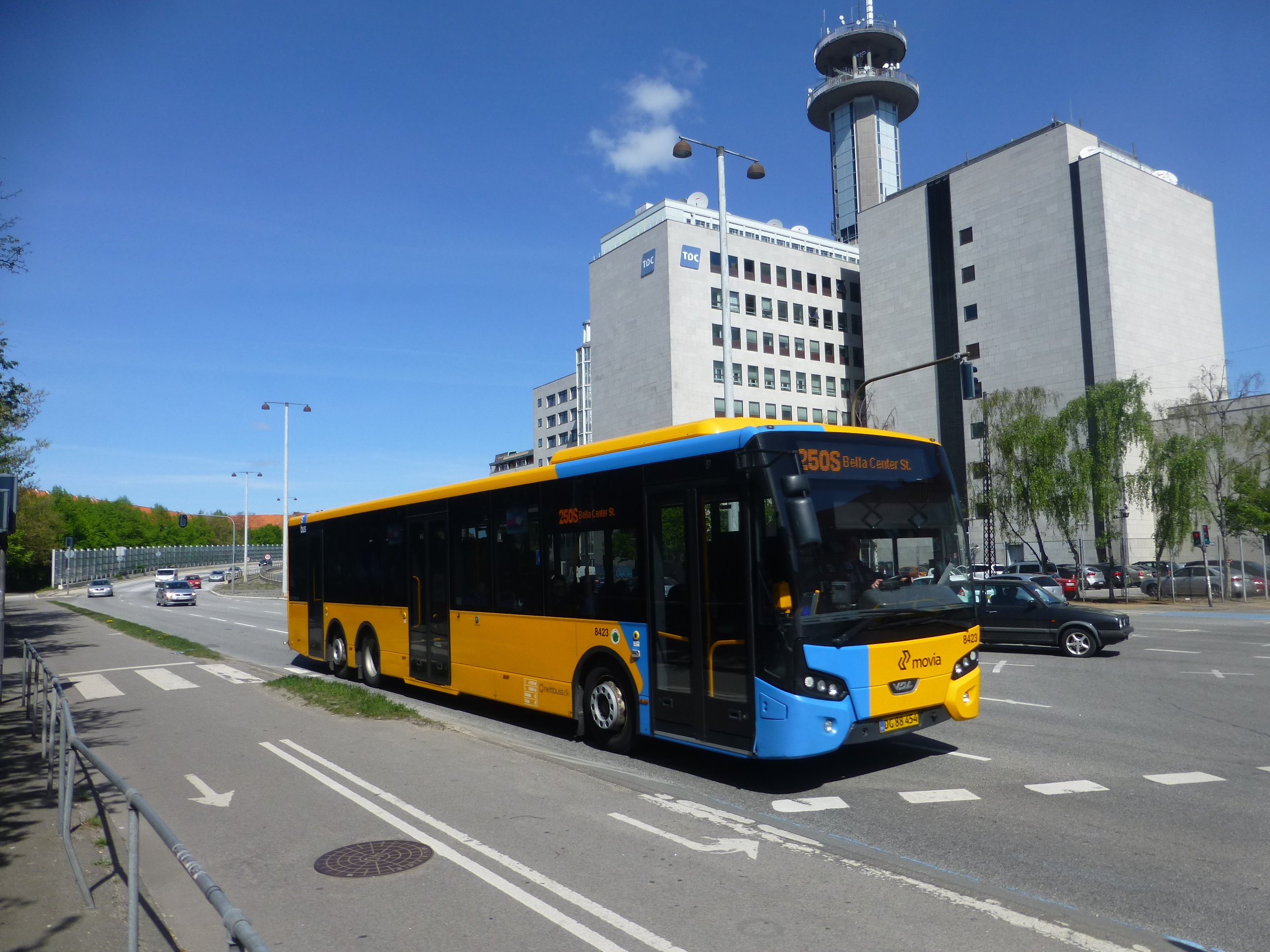 Movia bus line 250S on Ågade at Telefonhuset in Copenhagen.